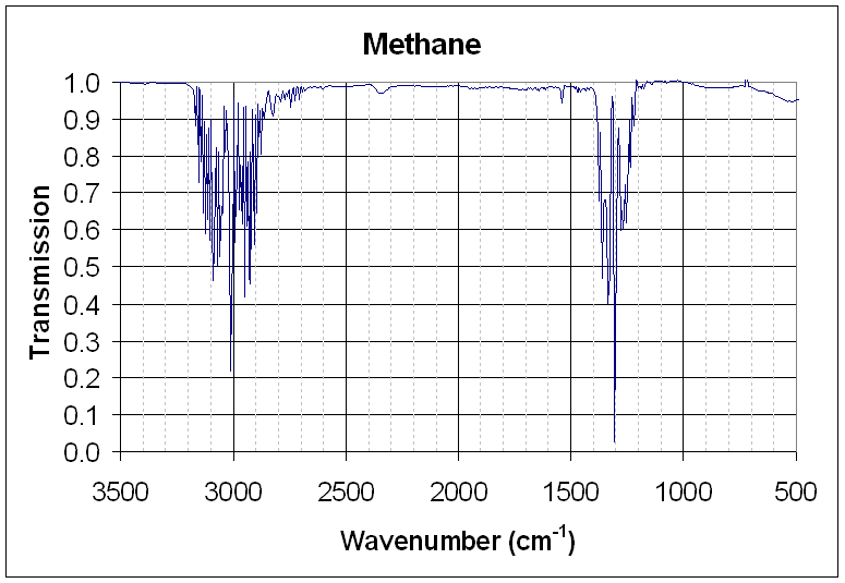 Infrared spectra of methane. Jaraalbe 10:45, 4 April 2006 (UTC)